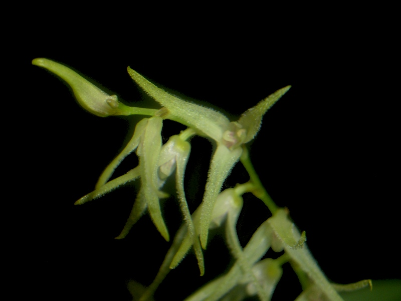 Specklinia(Pleurothallis) dolichopus found from Mexico to Ecuador in wet forests as a warm to coold growing epiphyte